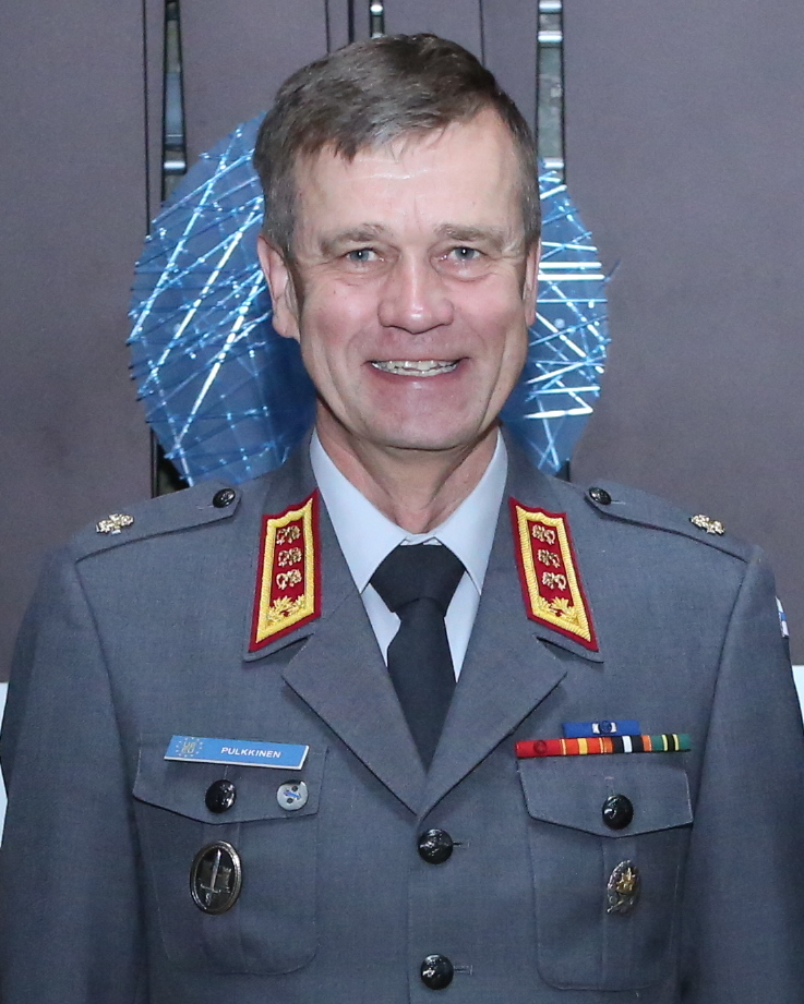 (l-r) Jüri Luik, Minister, Ministry of Defence, Estonia; Esa Pulkkinen, Director General, EU Military Staff, EEAS / EUMS; Federica Mogherini, High Representative / Vice President, European External Action Service (EEAS) / European Commission Photo: Annika Haas (EU2017EE)